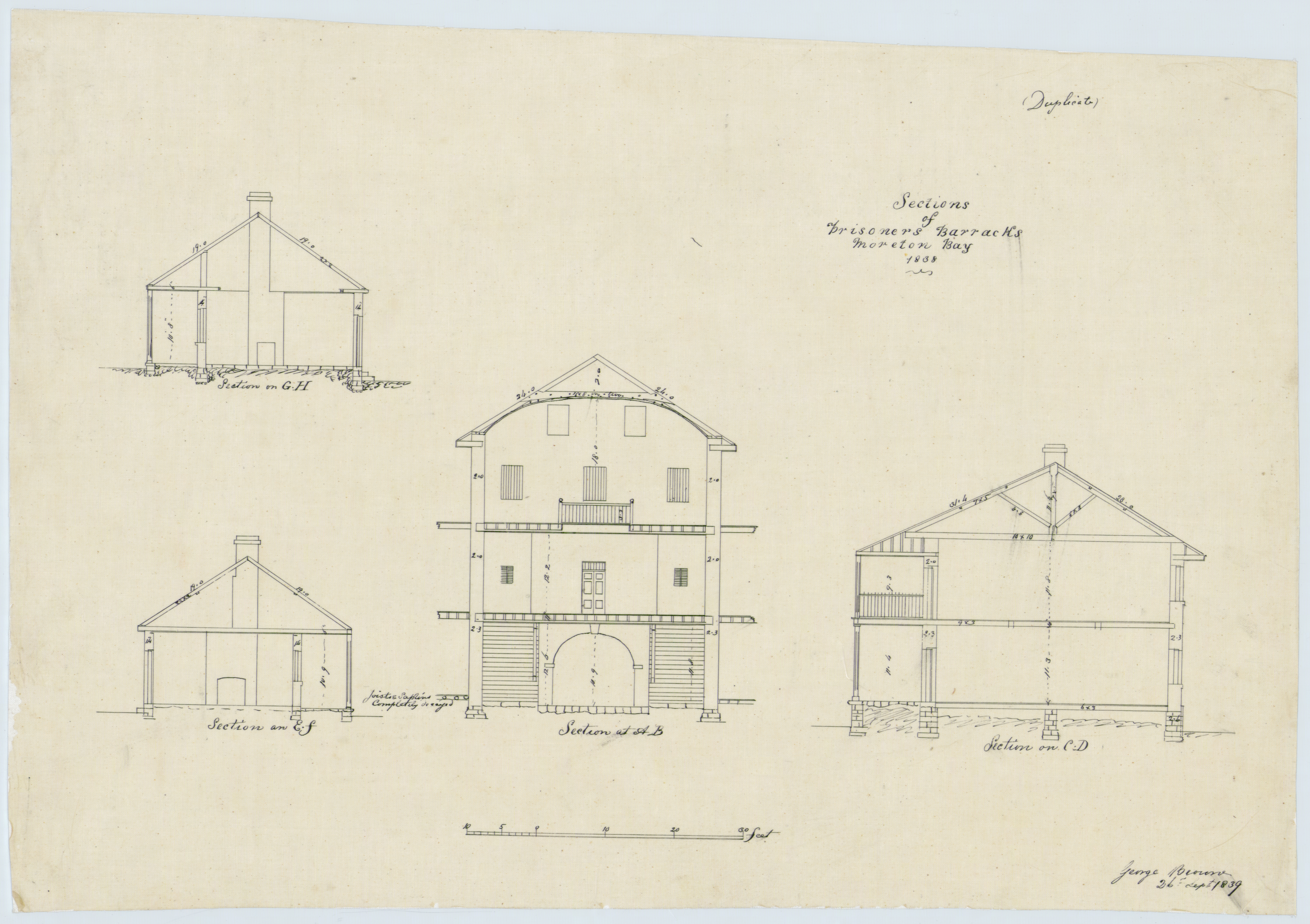 Drawing showing sections of Prisoners' Barracks, Moreton Bay, 26 September 1839